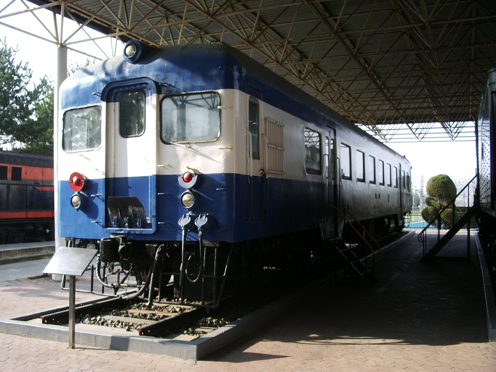 Car 672 was part of a distributed power diesel train that did commuter services around Seoul starting in 1961. The name Niigata is due to the fact that it was built by Japanese manufacturers in Niigata. In 1974, electric subway trains took over the Niigata's routes, and the train was switched to other commuter services before being retired in 1987.